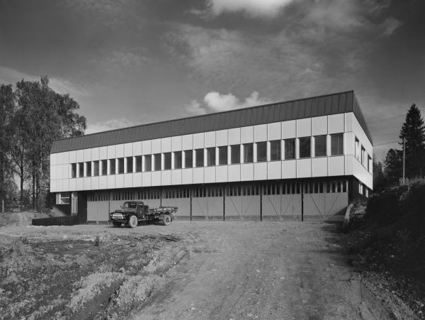 Outside view of Oy Suomen Vanutehdas Ab (Kaukas, hyvinkää, Finland).